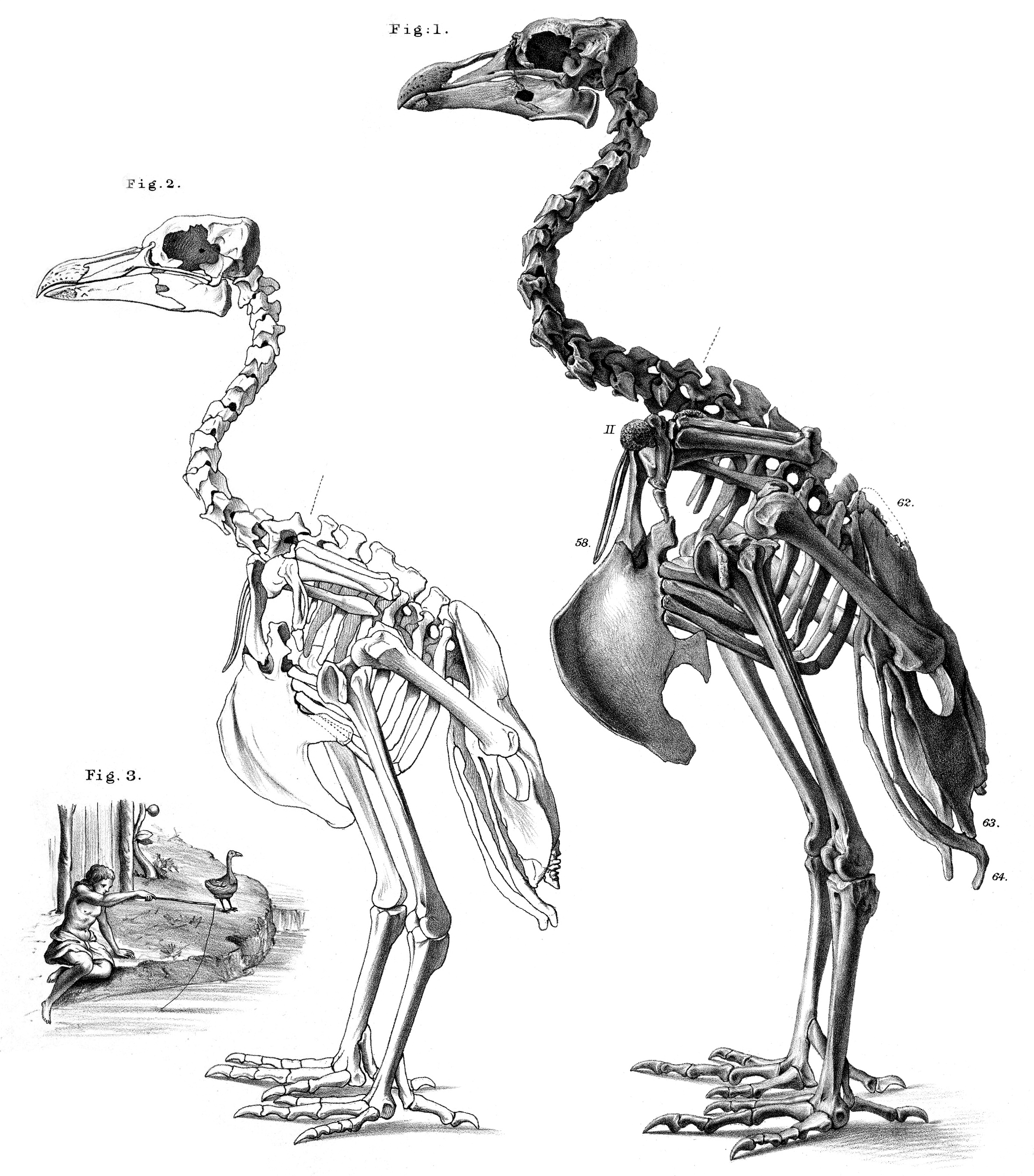 Skeleton of female and male Pezophaps solitaria. Extinct Wingless Birds of New Zealand, with an Appendix on those of England, Australia, Newfoundland, Mauritius, and Rodriguez by Sir Richard Owen